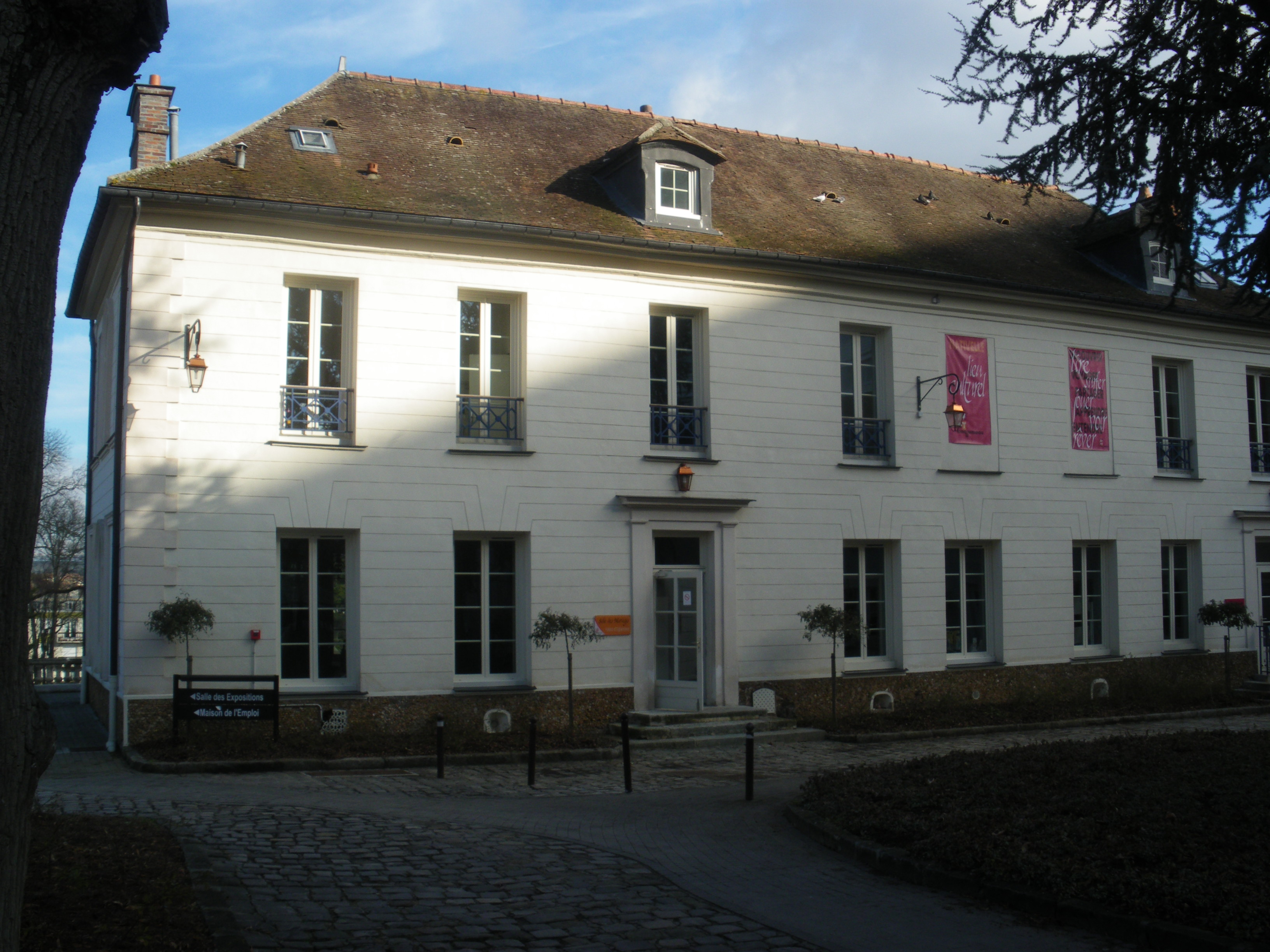 Public library of Longjumeau, Essonne, France.